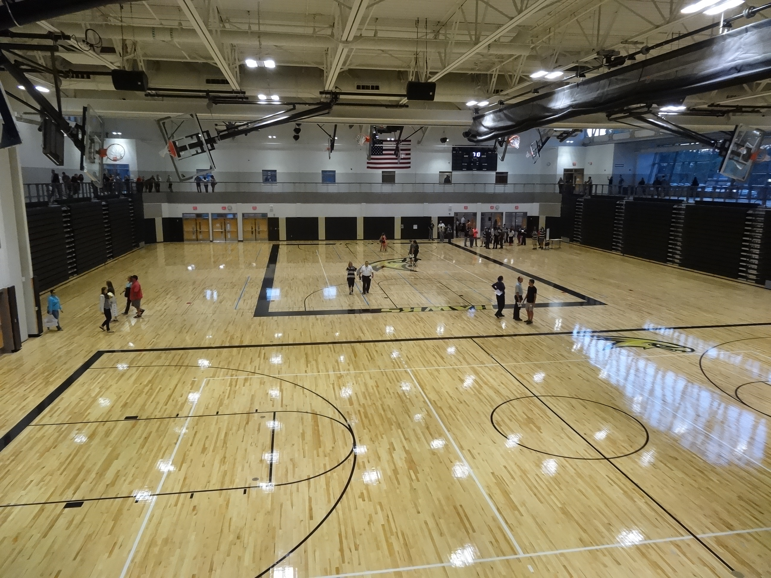 consists out of 2 parts that can be divided